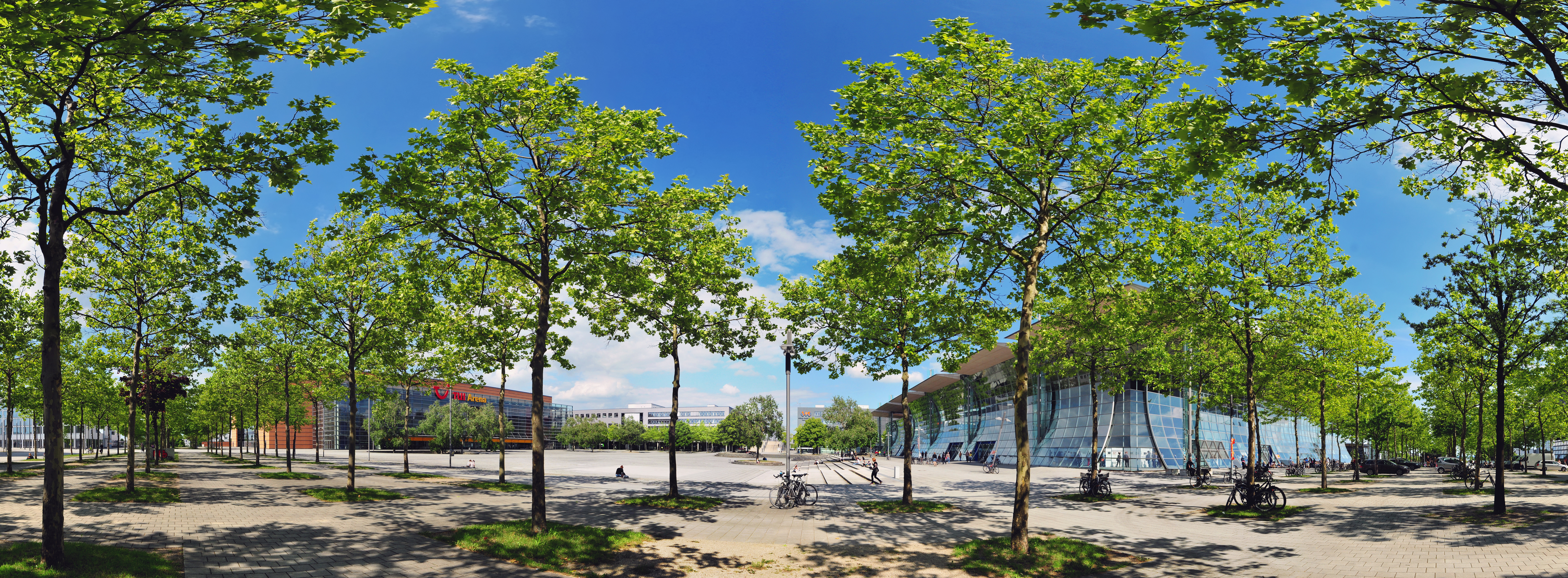 The Expo Plaza, plaza by the Expo 2000 with the TUI Arena in Hanover, Germany.